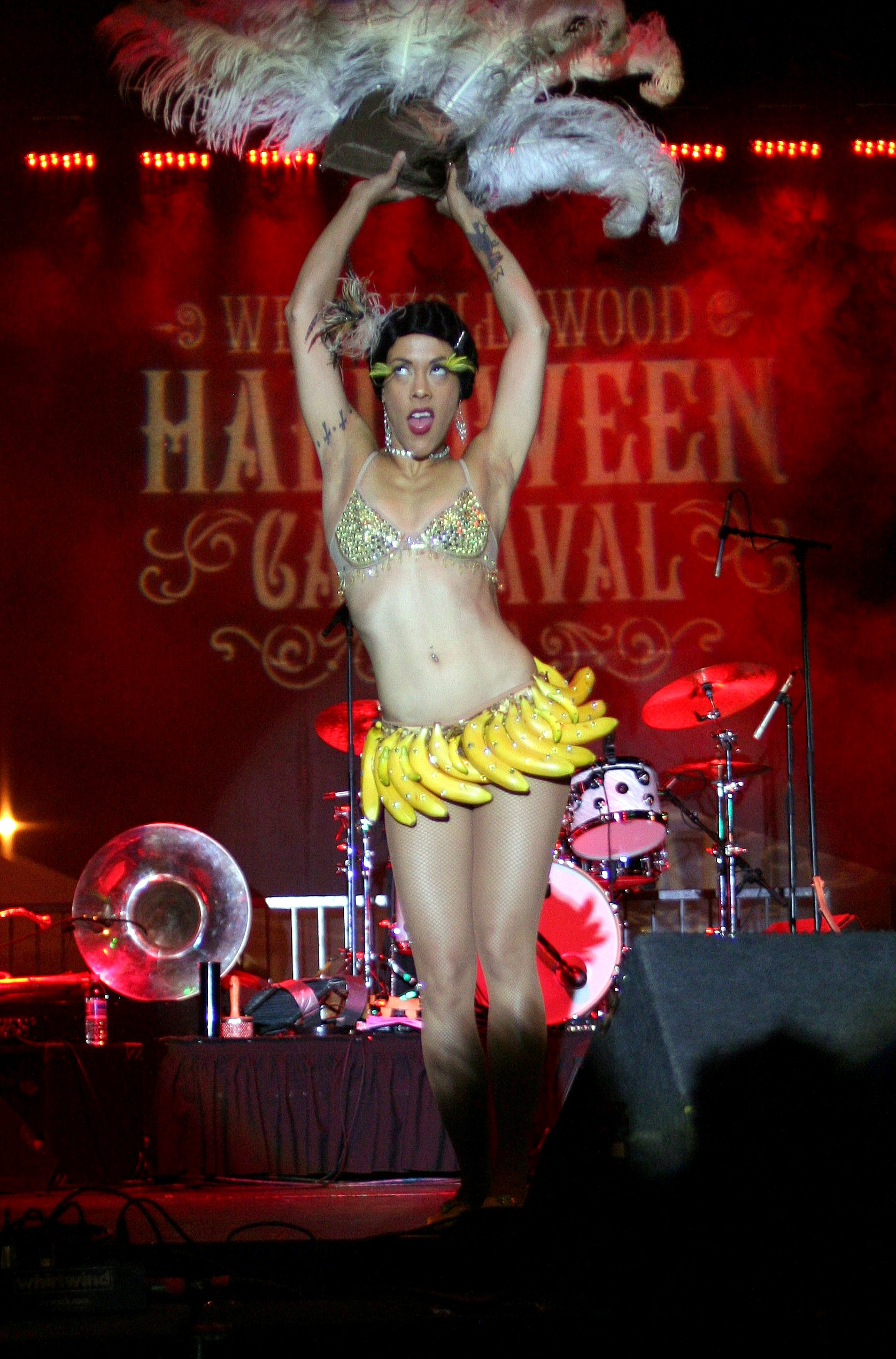 There were stages all over Santa Monica Blvd (where the parade was held) with a lot of interesting shows. Here's one of a woman who's doing a Josephine Baker dance routine. Who's Josephine Baker? She was a black singer from the 1920s who became huge in Paris. Dig the banana skirt, which was what Baker wore in her day.